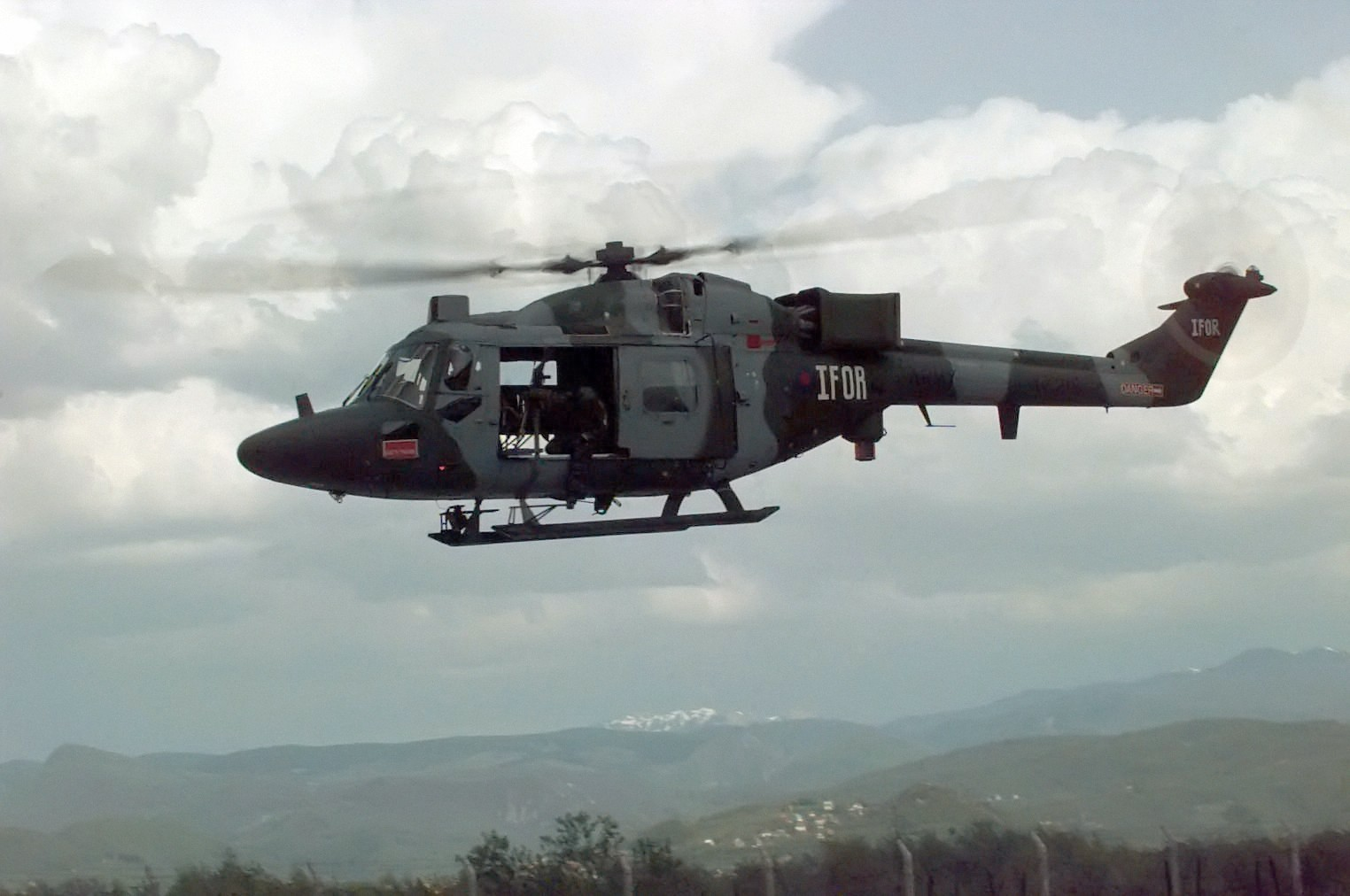 In the afternoon of the 7th of May 1996, a British Army Lynx Helicopter hovers over the Allied Command Europe Rapid Reaction Corps Helicopter Landing Zone after having delivered a generator by slingload. The generator will be used by troops located on the Allied Command Europe Rapid Reaction Corps (ARRC) compound in the Sarajevo suburb of Ilidza, Bosnia during Operation Joint Endeavor. Peace Implementation Force (IFOR).